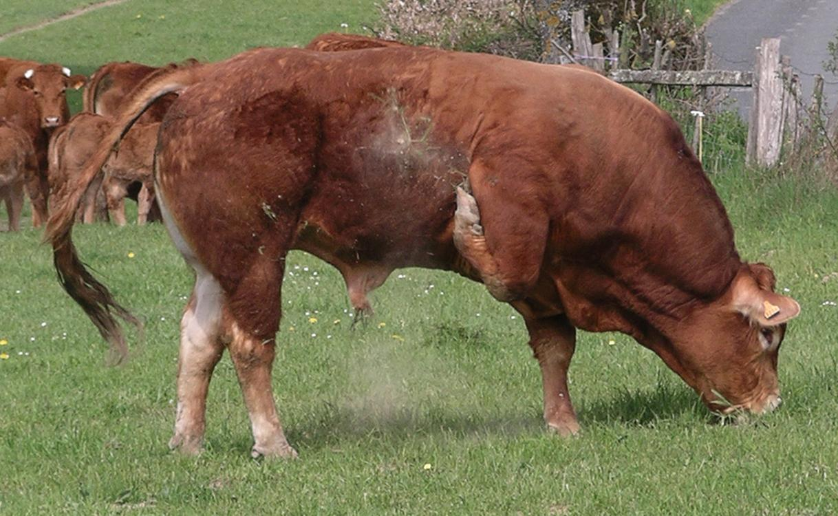 Limousin bull with cattle behind grazing near Bonnat in Creuse